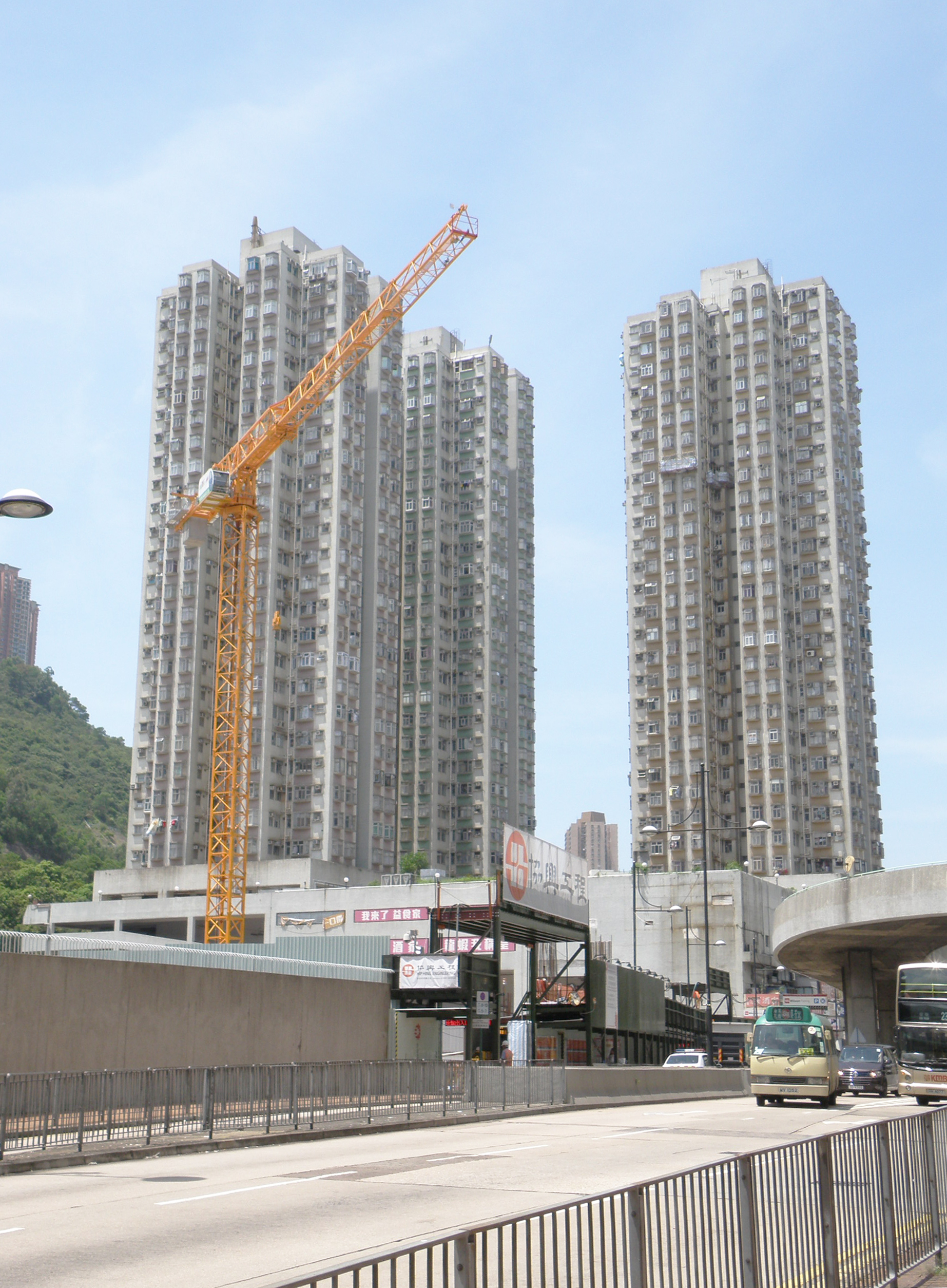 Kwai Fong Terrace in Kwai Fong, Hong Kong.